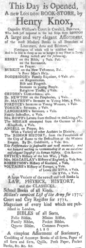 Newspaper item related to Williams Court, Boston, Massachusetts